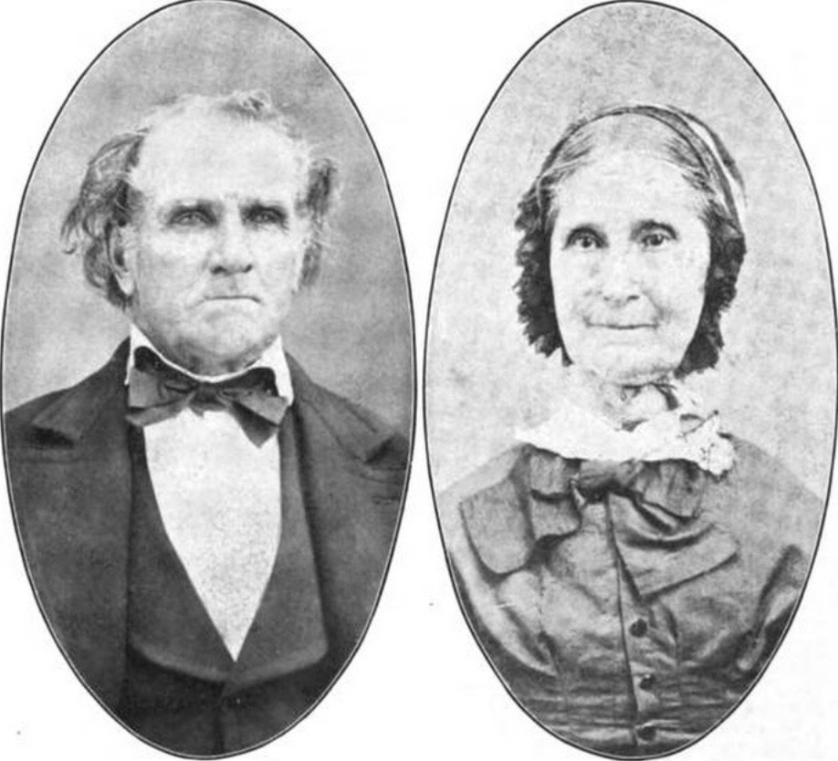 Jacob C. Spores and Nancy Orndorf Spores, Oregon pioneers